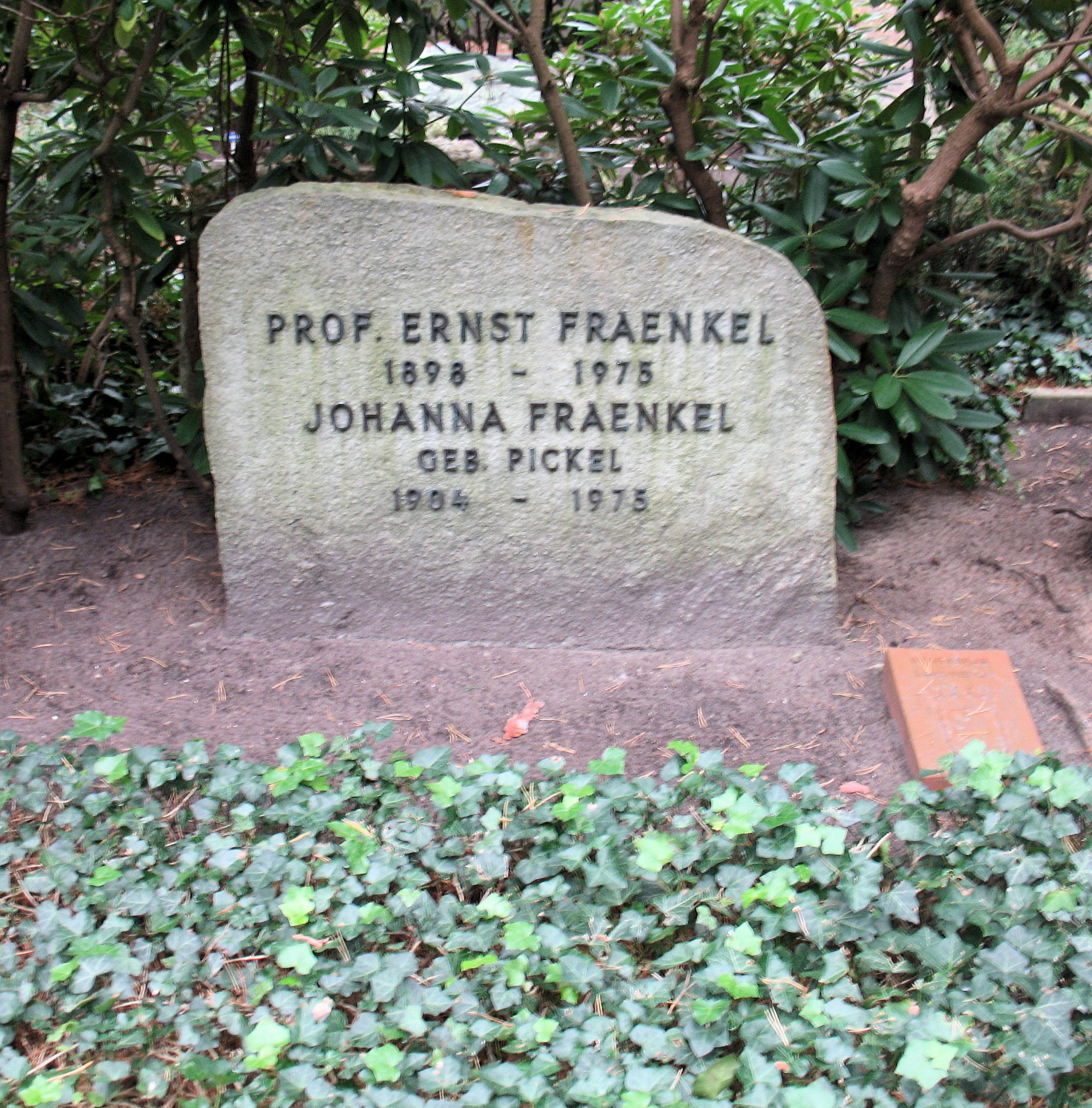 "Ehrengrab" (grave of honor), Ernst Fraenkel, Hüttenweg 47, Berlin-Dahlem, Germany